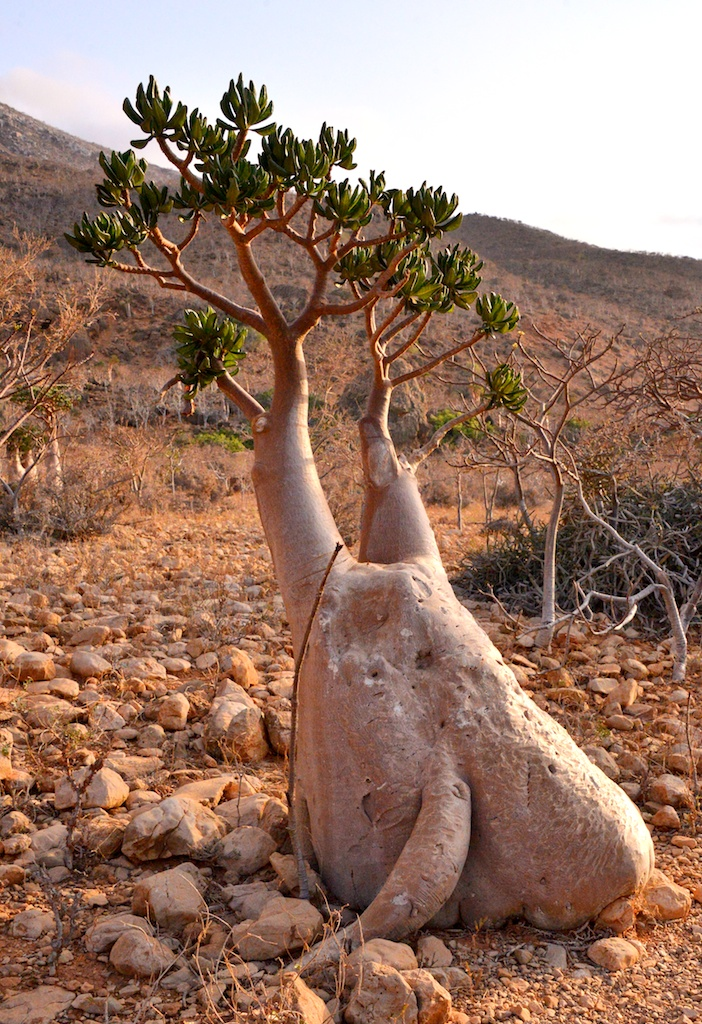 Desert Rose Bottle Tree, Socotra Island